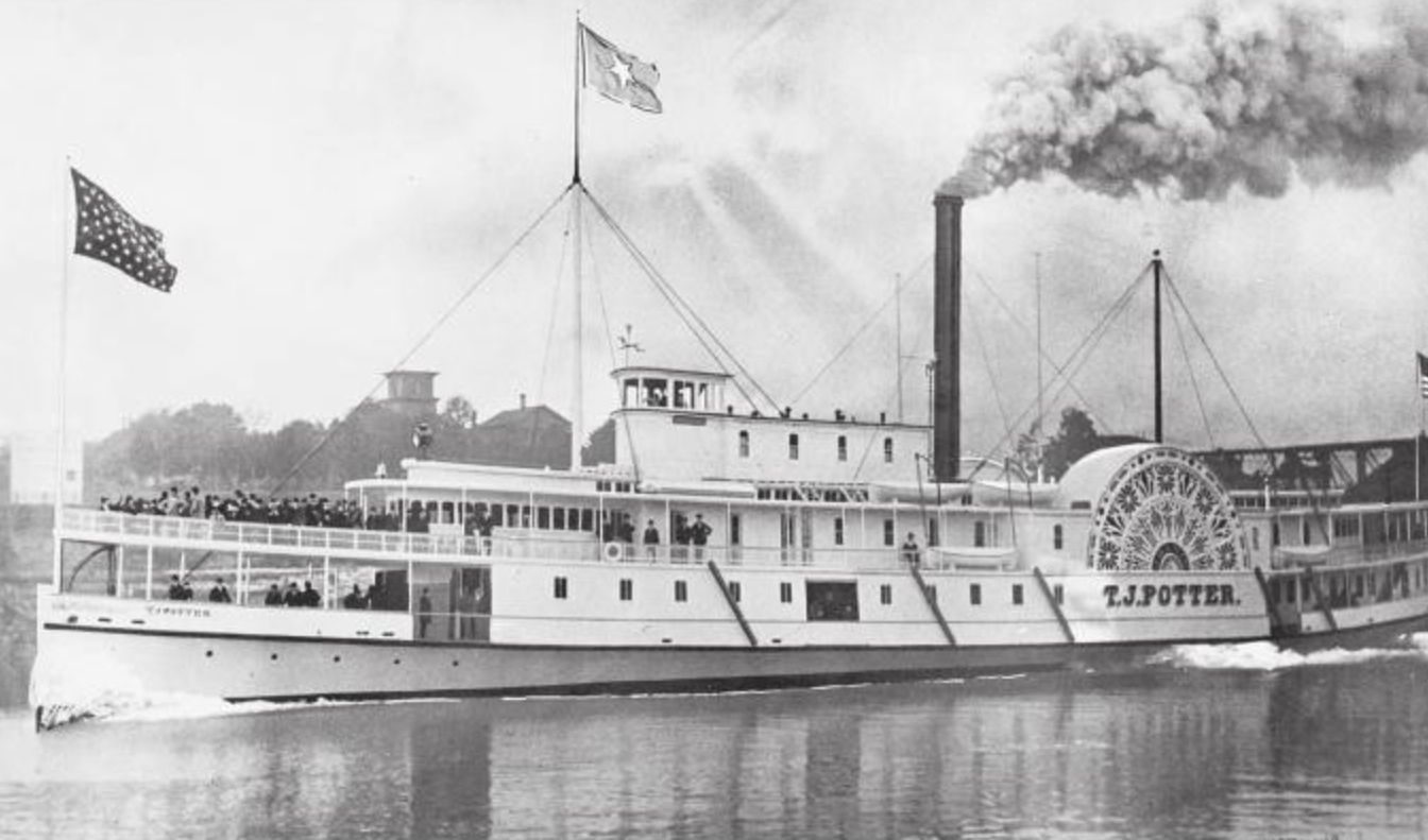 Sidewheel steamer T.J. Potter as built in 1888 and before modification in 1901.